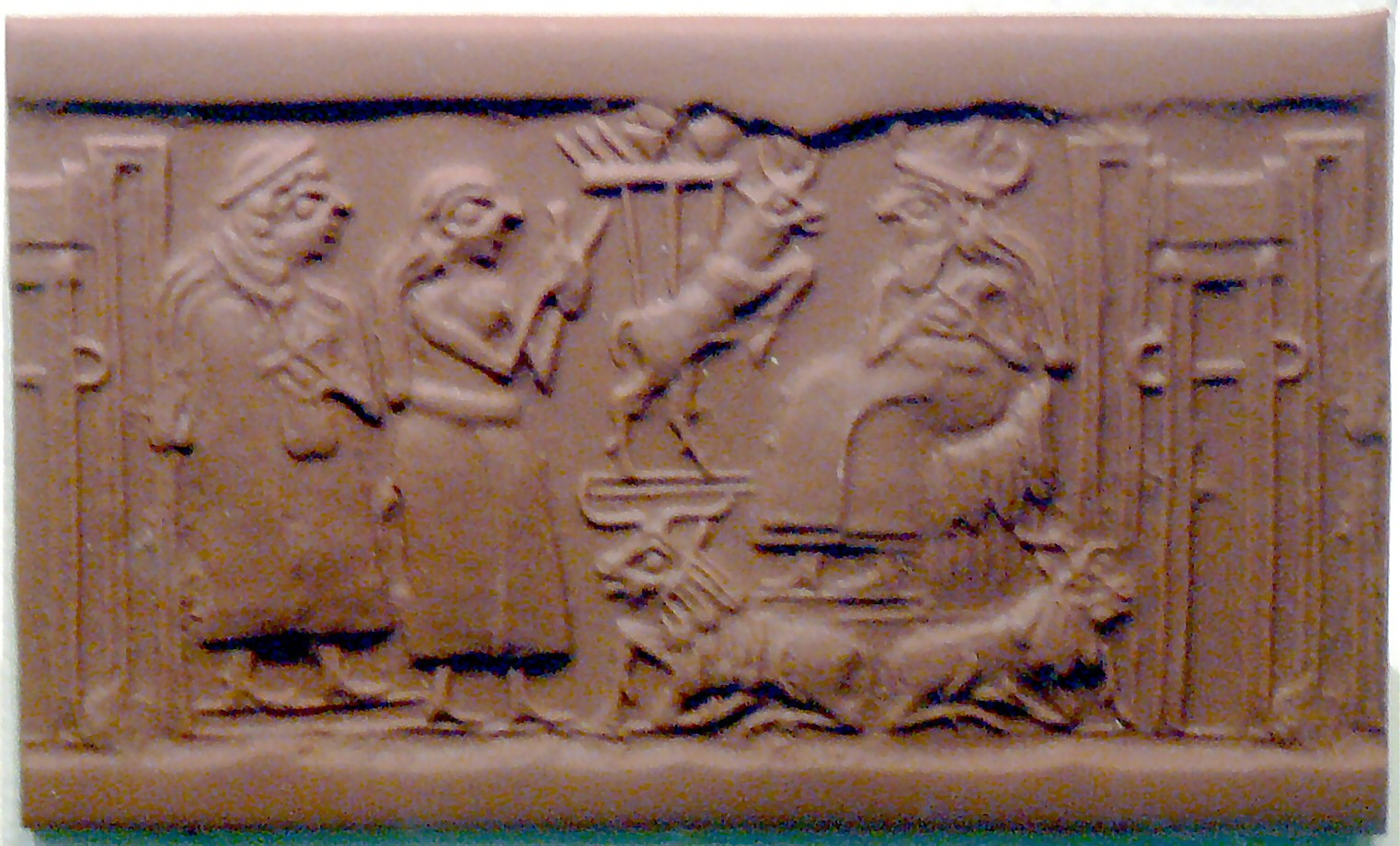 Museum of Ancient Near East ( Berlin ). Impression of a cylinder seal ( 2500 BC ).